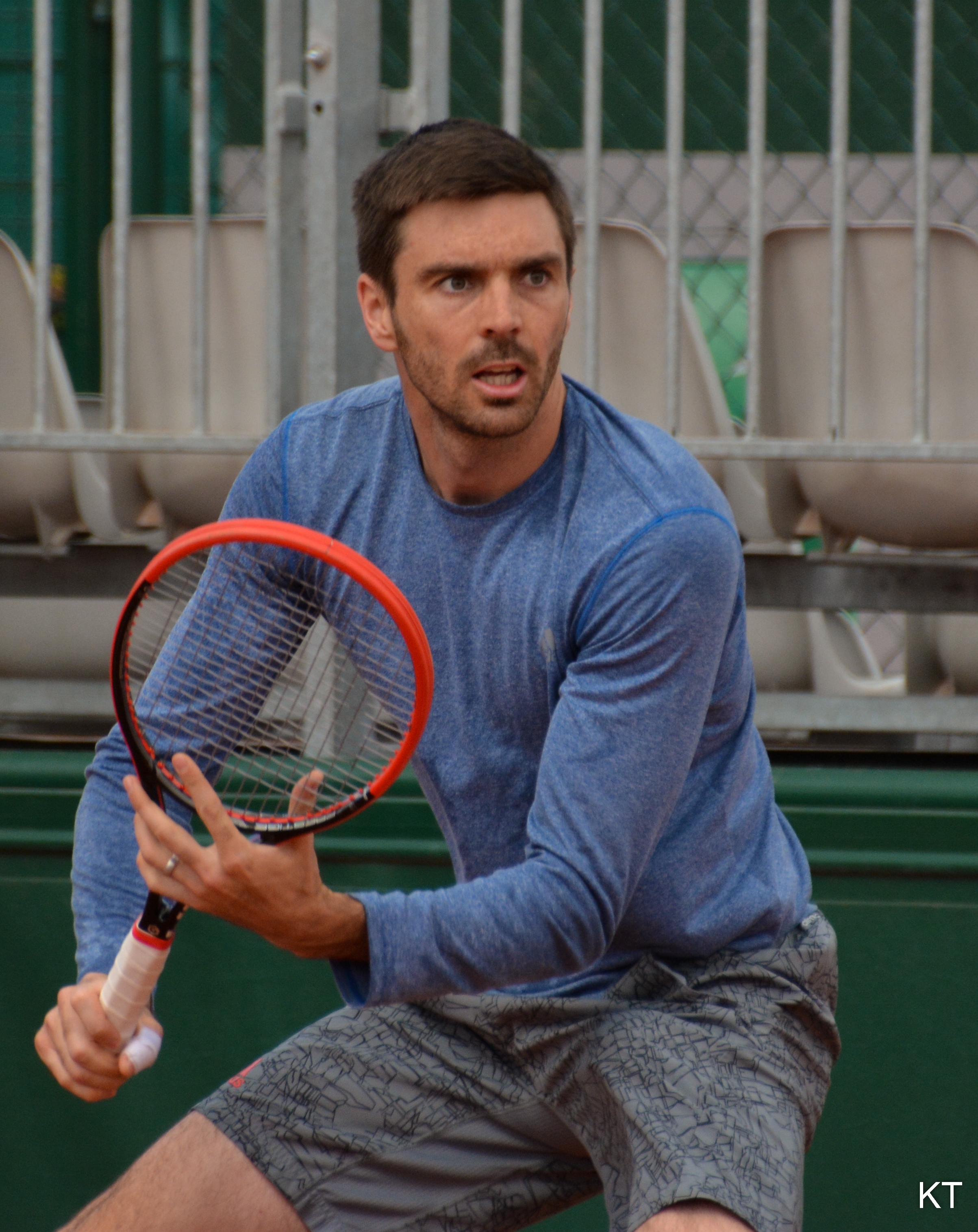 On the practice court. Day 3 of Roland Garros 2015.